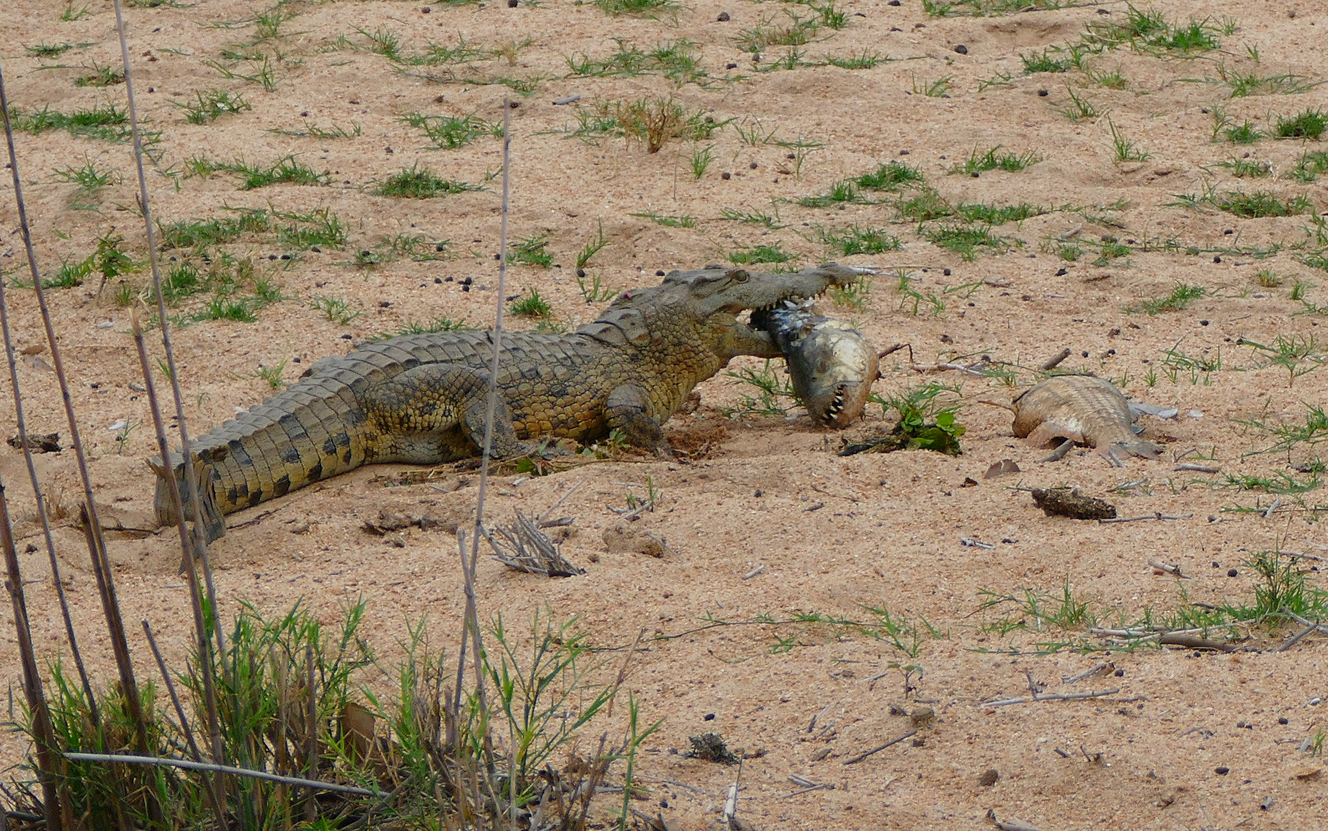 Sabie Bridge, H10 Road South of Lower Sabie, Kruger NP, Mpumalanga, SOUTH AFRICA